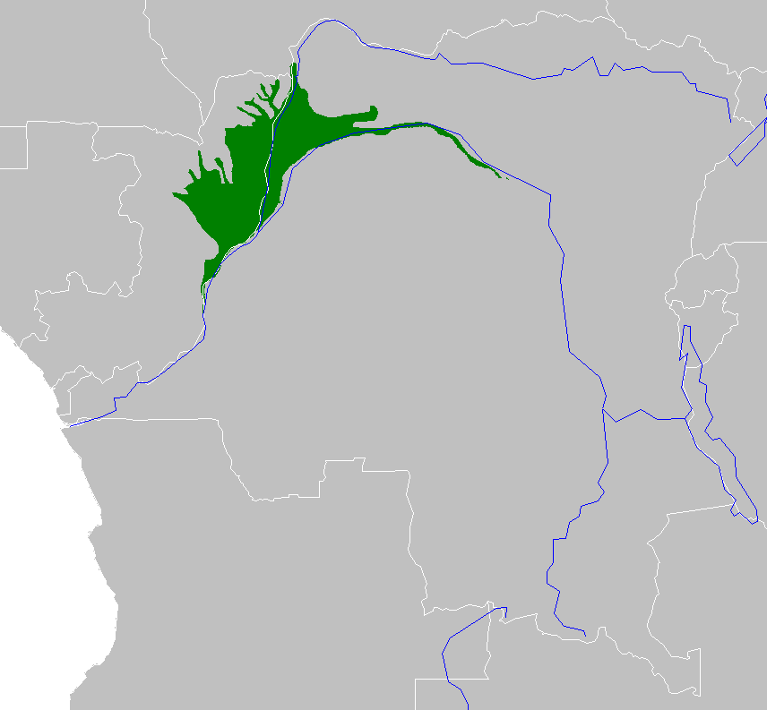 Western Congolian swamp forests ecoregion map — an African rainforest in the Congo Basin.